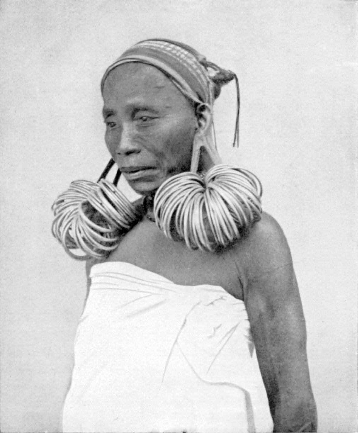 A Garo womanIn the Garo hills the woman wear fifty or more brass rings in each ear, a ring being sometimes as much as four inches in diameter. When a man dies his widow puts of her war-rings till the funeral ceremony is over and sometimes never puts them on again.